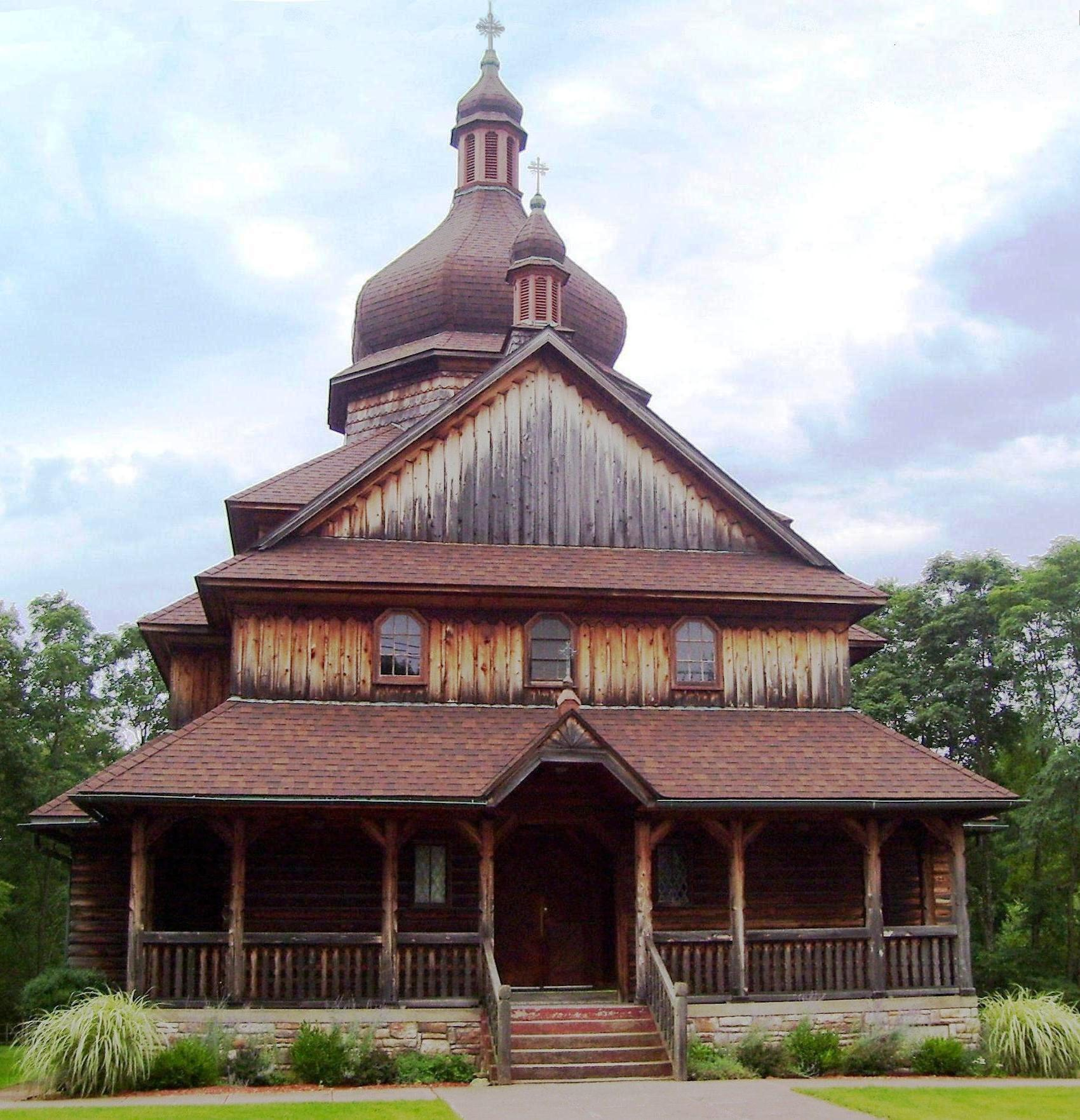 St. Volodymyr Ukrainian Greek-Catholic Church at 447 High Road (County Route 41) in Glen Spey, New York is under the authority of the Ukrainian Catholic Eparchy of Stamford.